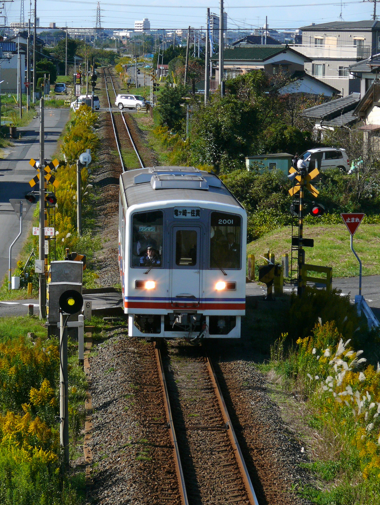 Kanto Railway Ryugasaki Line.